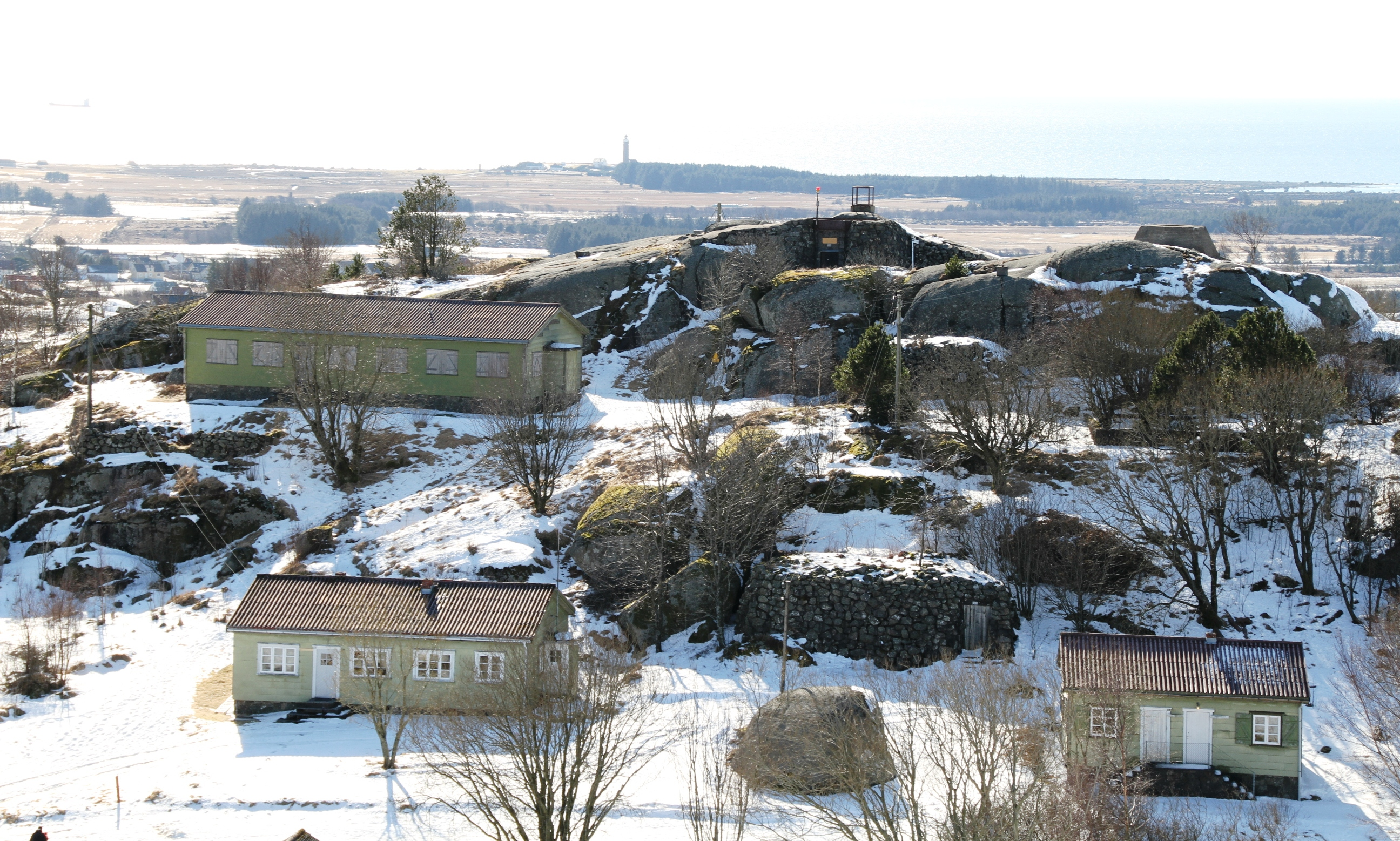 Image from the Nordberg Fort, a world wwar II museum at Lista, Farsund municipality, Vest-Agder county (Norway). The fort was in use by the German occupational forces already from 1941. This museum also holds archaeological remains from the fertile Lista region, including nice bronze-age and iron-age artifacts.